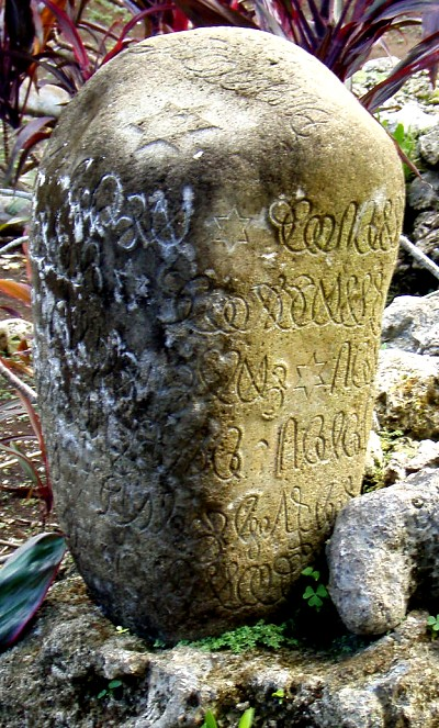 Carved stone at Lavatmanggemu inscribed with the names of local figures in the Avoiuli alphabet